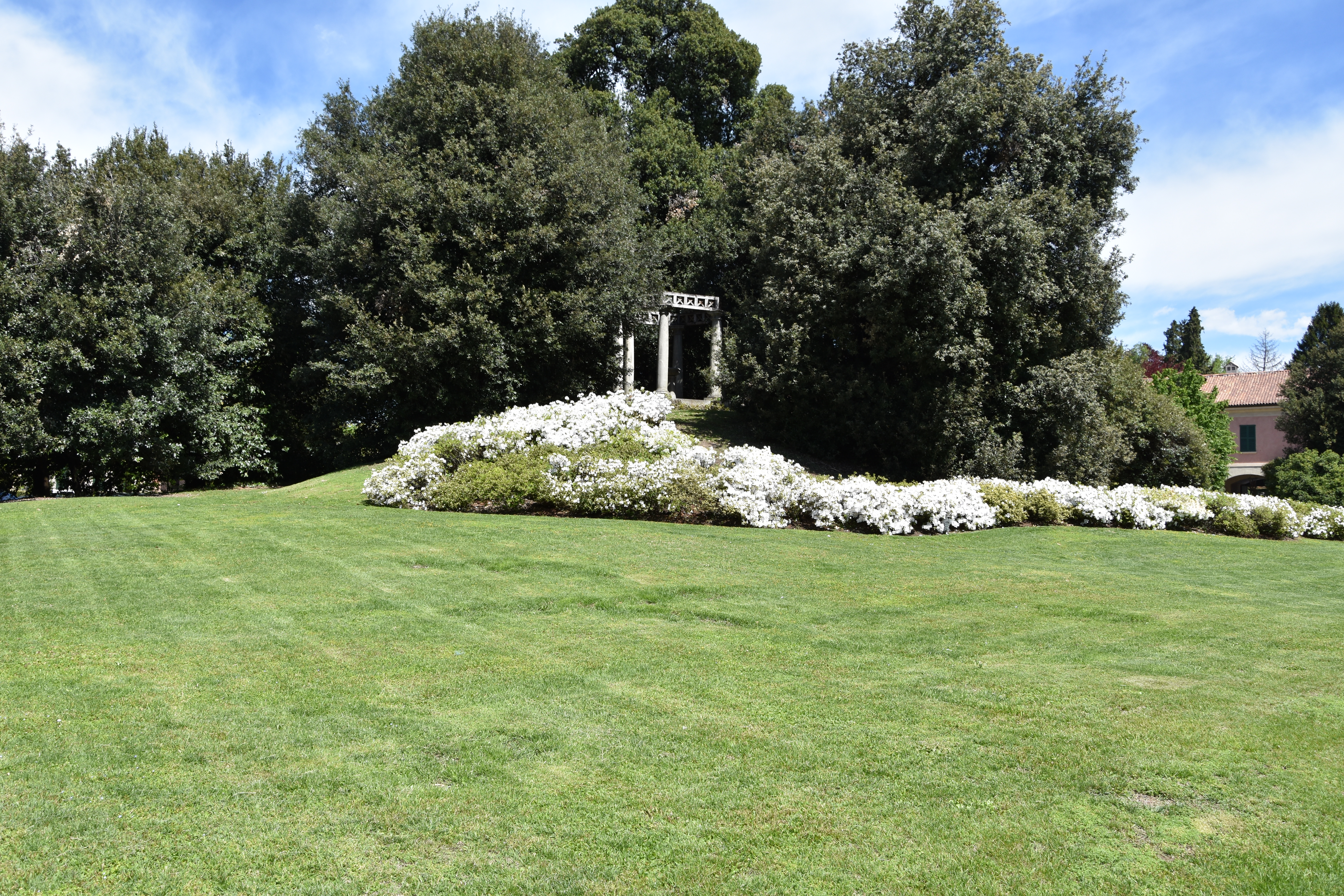 Villa Panza in Varese, Italy.